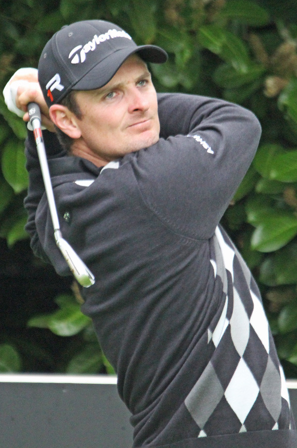 Justin Rose playing golf at the 2013 BMW PGA Championship. If you wish to use this image, credit with a followed link to